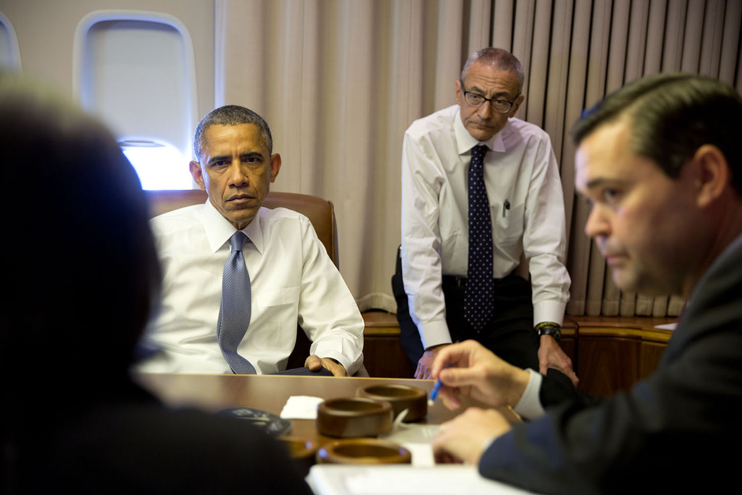 President Barack Obama holds a meeting with National Security Advisor Susan E. Rice; John Podesta, Counselor to the President; and Phil Reiner, Senior Director for South Asian Affairs, aboard Air Force One en route to New Delhi, India.